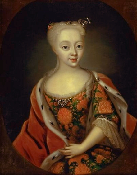 Portrait of Princess Louise of Denmark (1726–1756), Christian VI's daughter